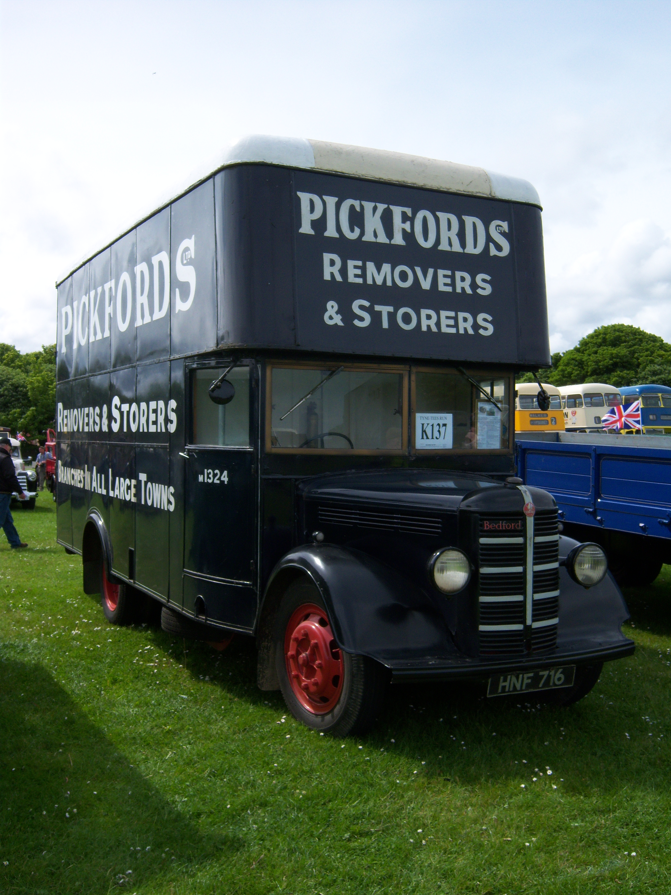 A 1947 Bedford MLZ (reg. HNF 716) pantechnicon van, pictured at the end of the 2012 HCVS Tyne-Tees Run. It's in the livery of Pickfords removals.